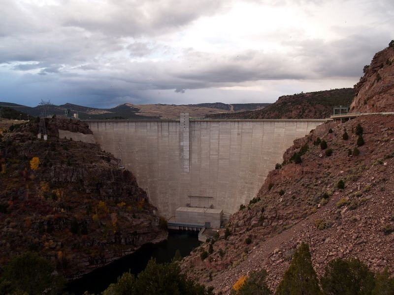 The dam for the Flaming Gorge Reservoir in northern Utah